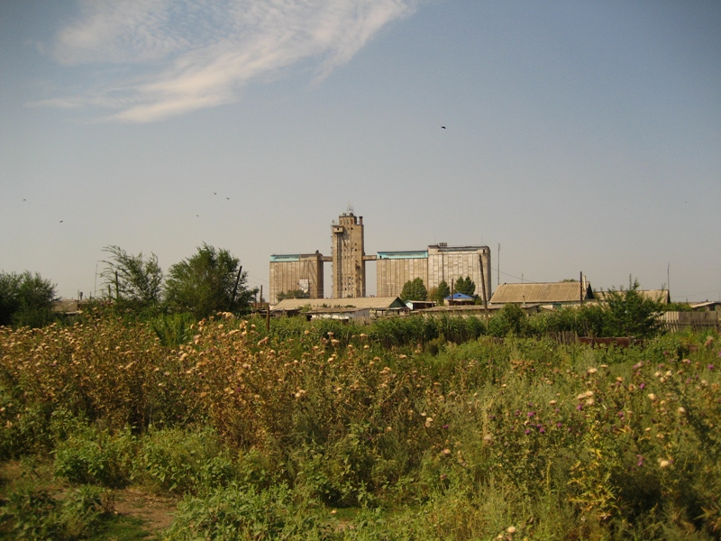 Taskala grain elevator